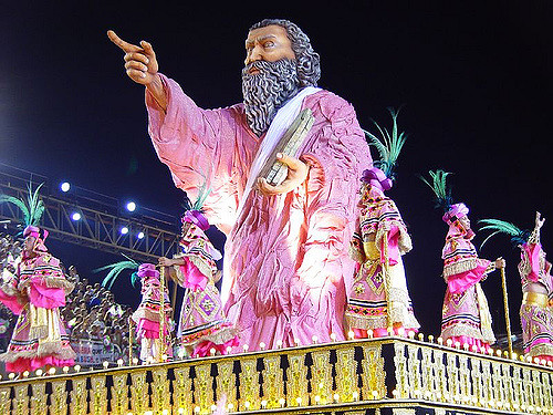 Carnival - Rio de Janeiro, Brazil - 2003.